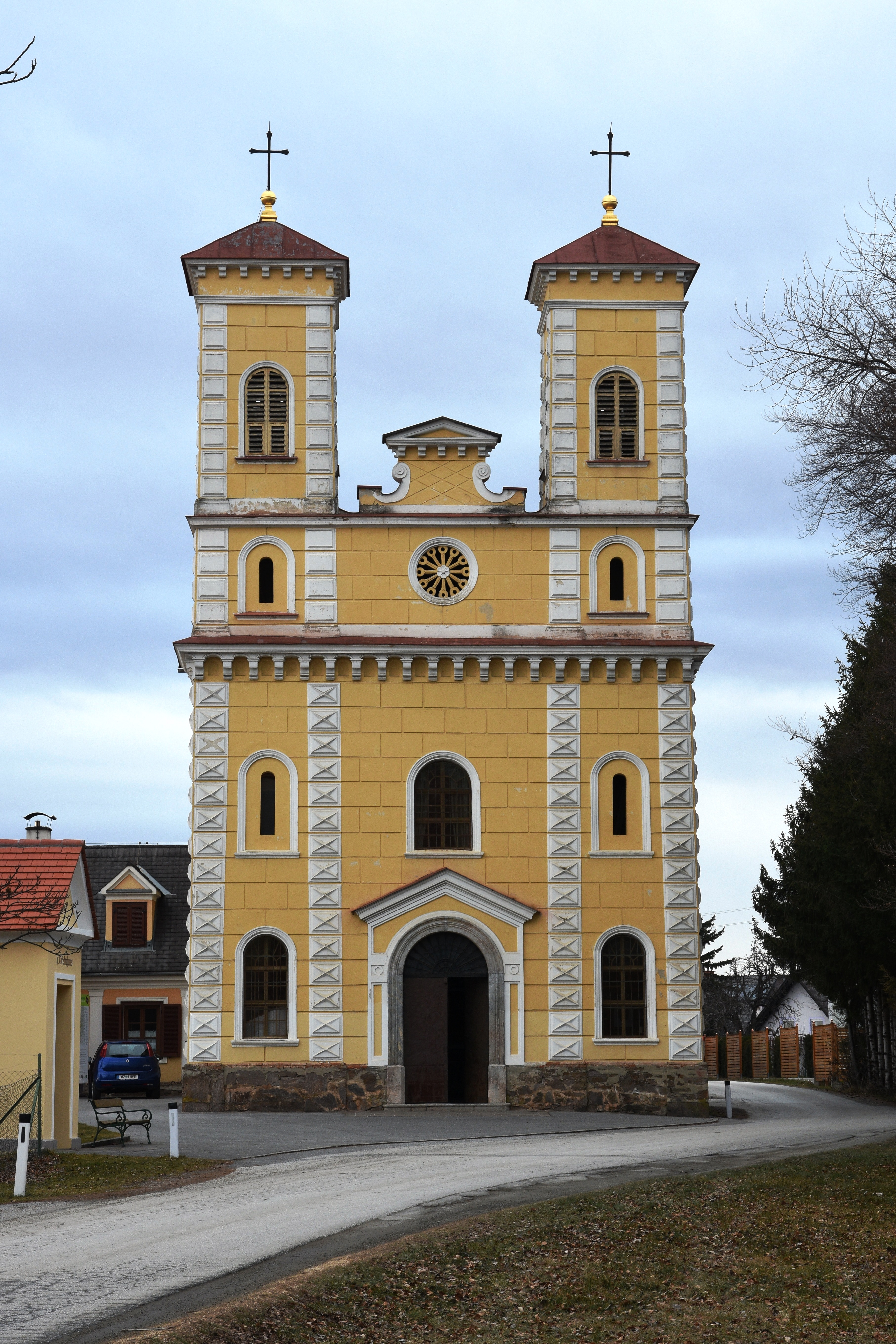 Church Kalvarienbergkirche Breitegg